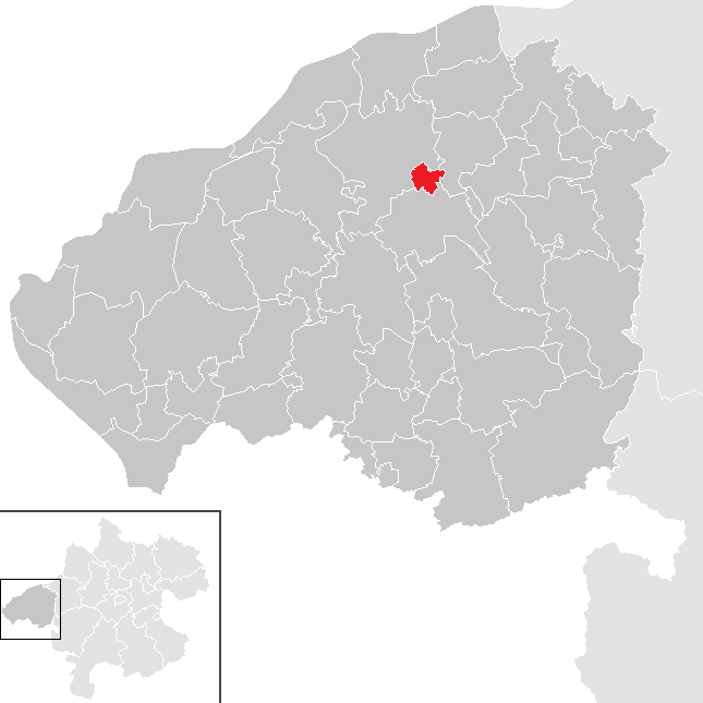 district Braunau am Inn